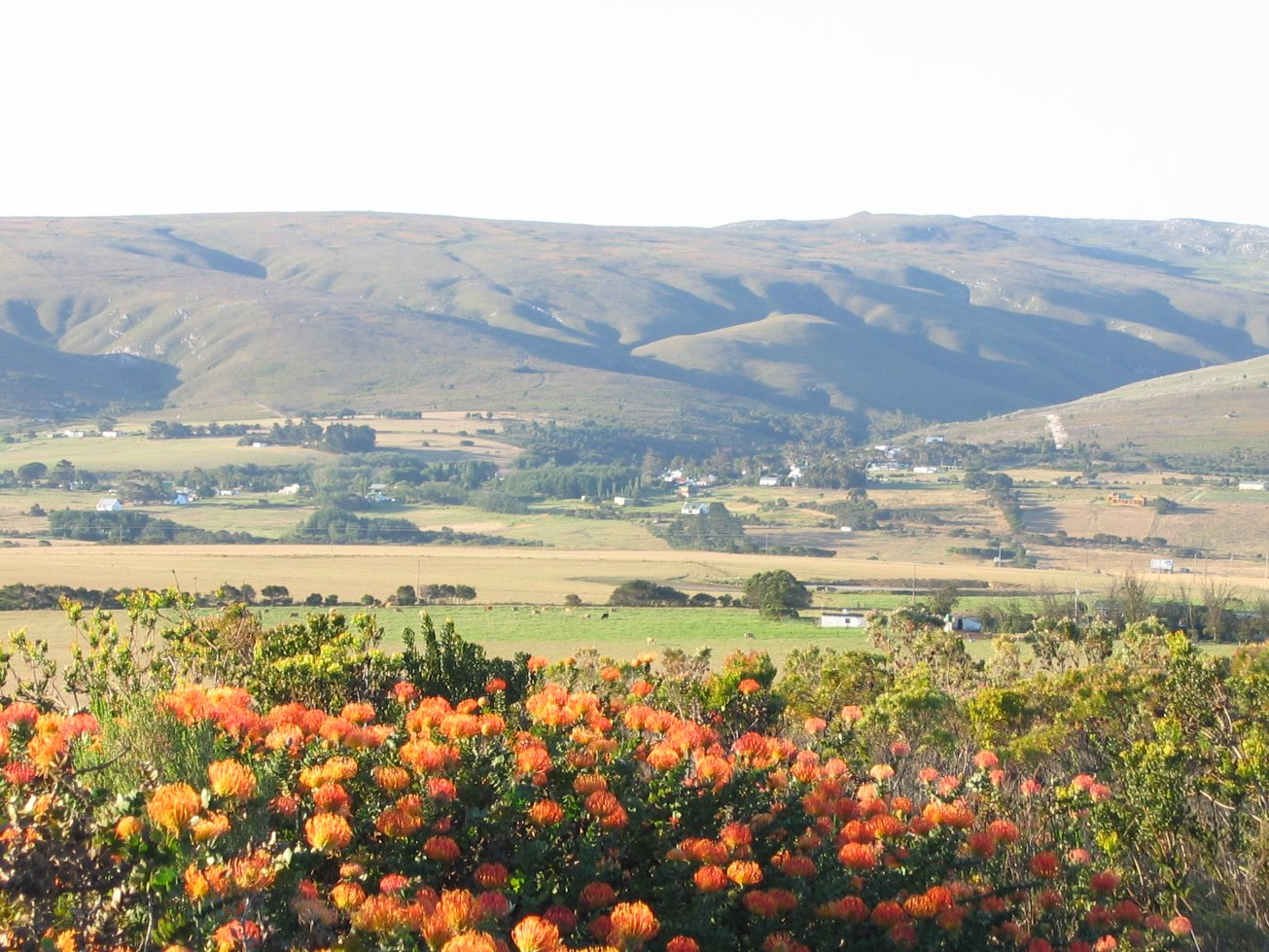 View of Baardskeerdersbos village in the Western Cape, South Africa, seen from across the Boesmans River valley.